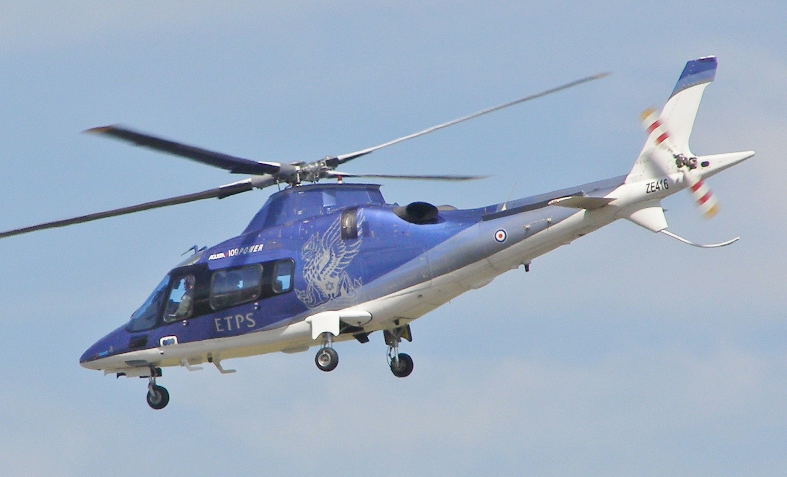 ZE416 is an Agusta A109E helicopter built in 2004 and operated by the Empire Test Pilots' School. It is departing RAF Fairford after being on display at the 2010 Royal International Air Tattoo.